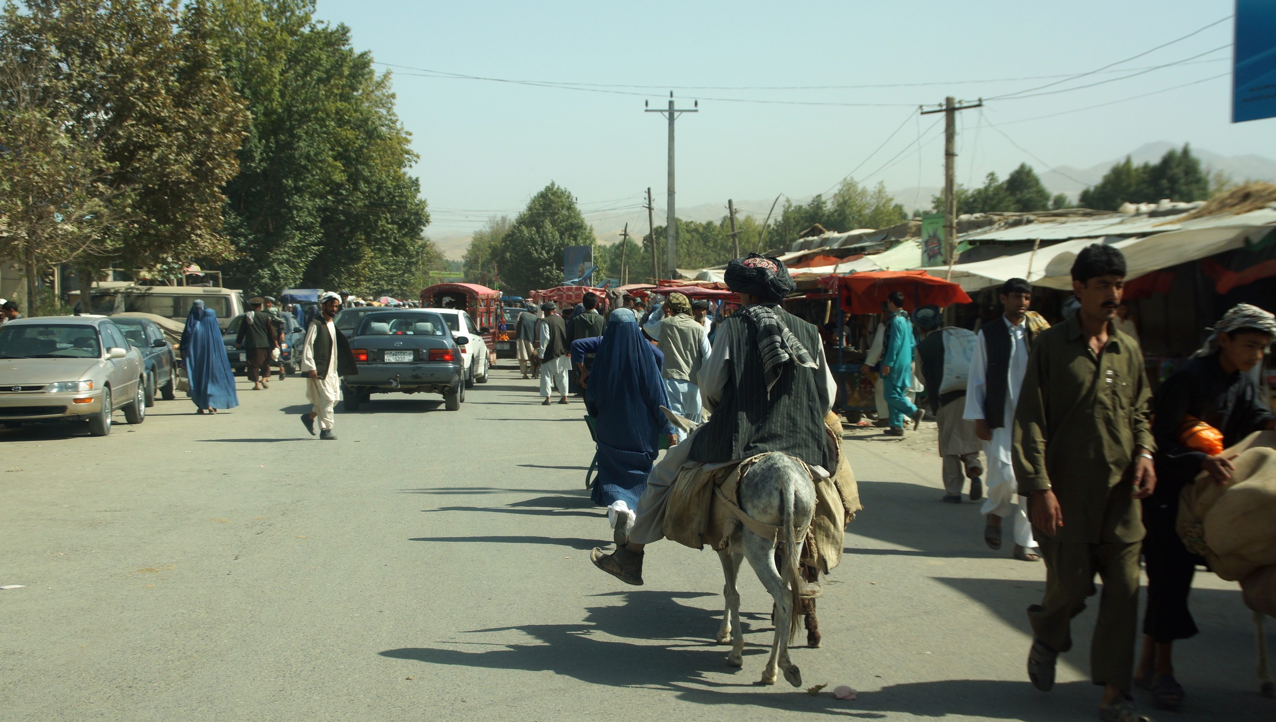 On the market street in Taloqan